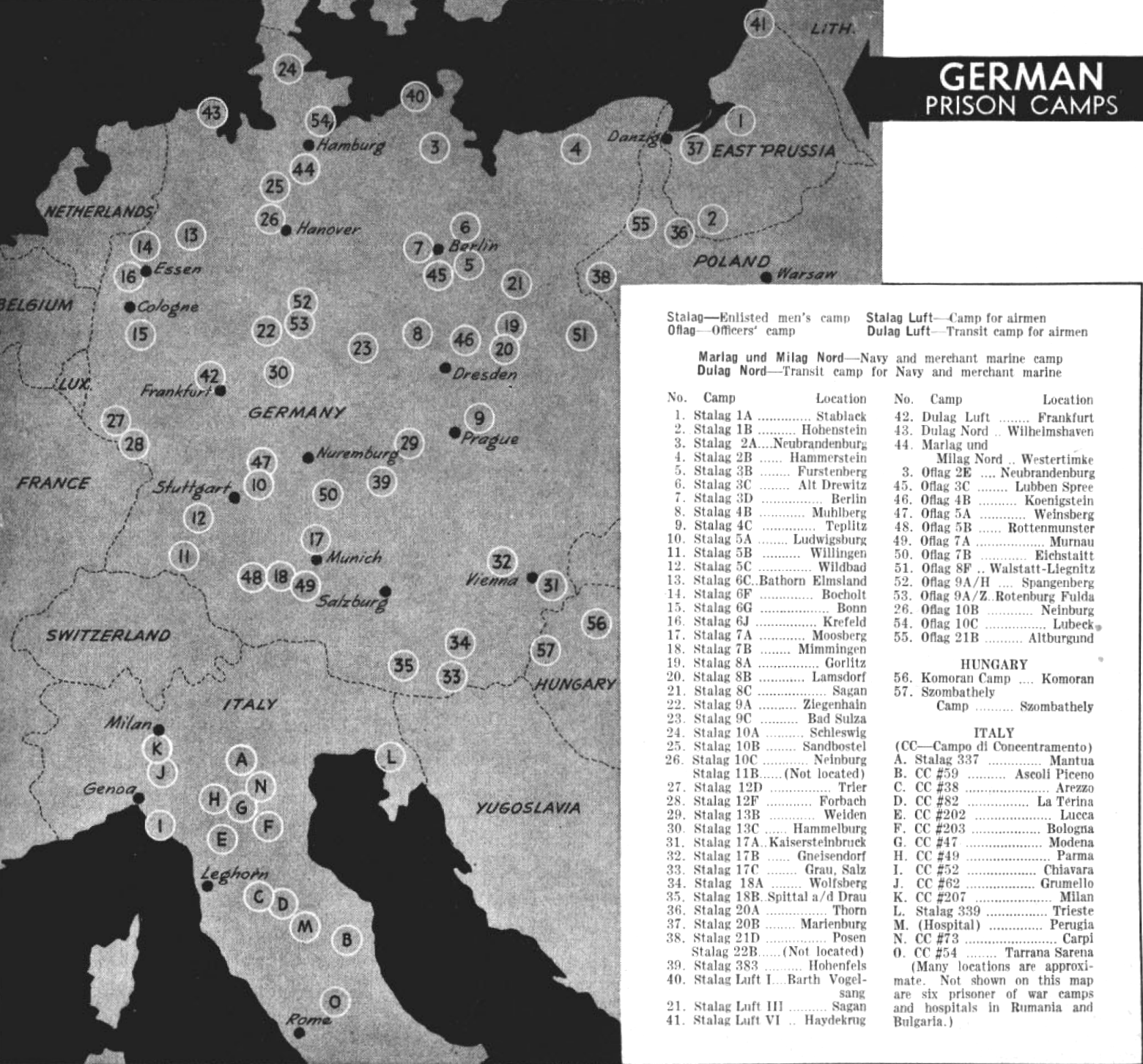 Contemporary map of prisoner of war camps in Germany and its occupied territories in early 1944.